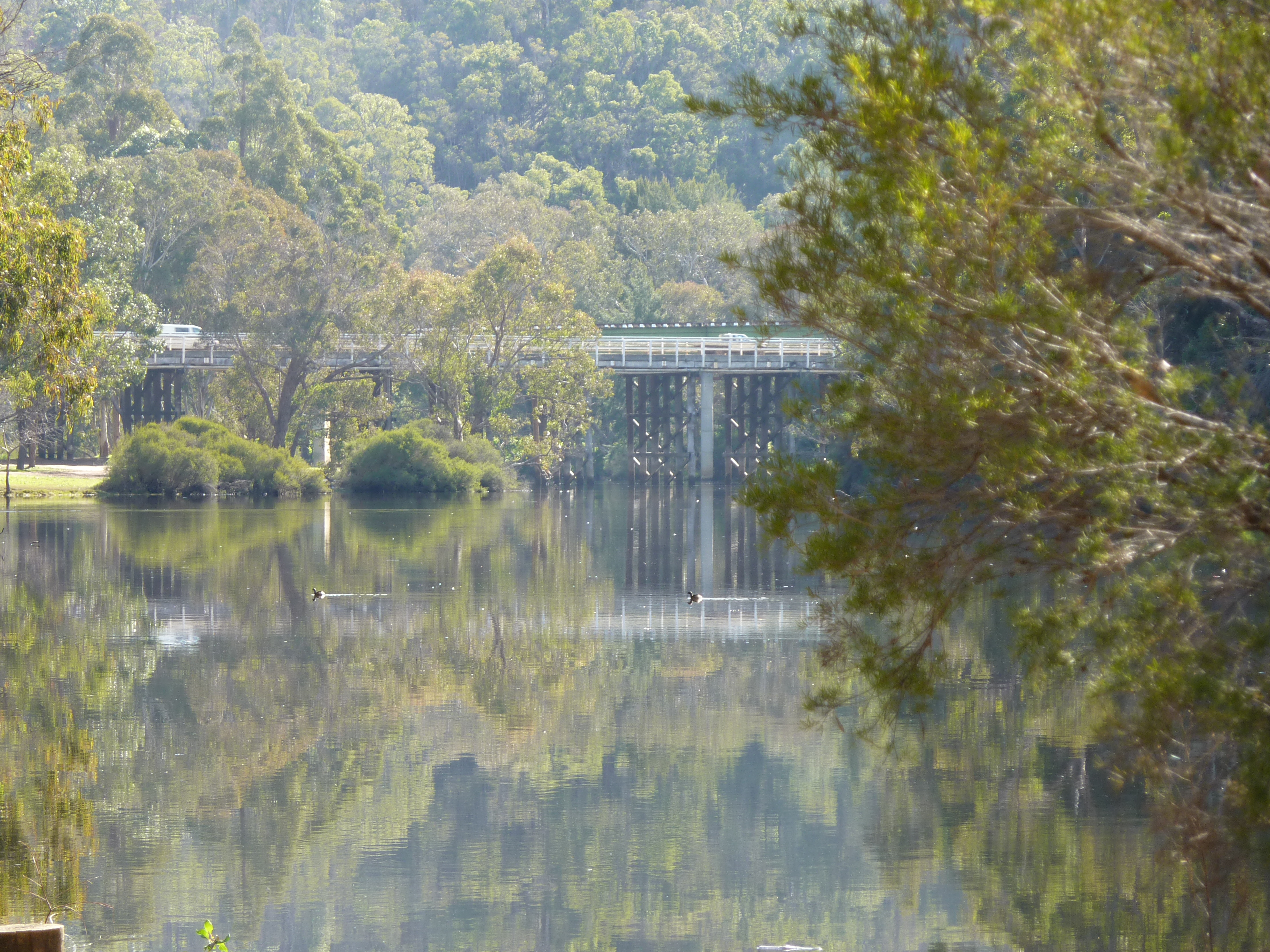 Blackwood River, Bridgetown, Western Australia